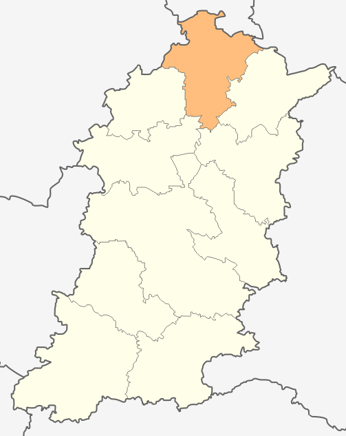 Map of Kaolinovo municipality, Shumen Province